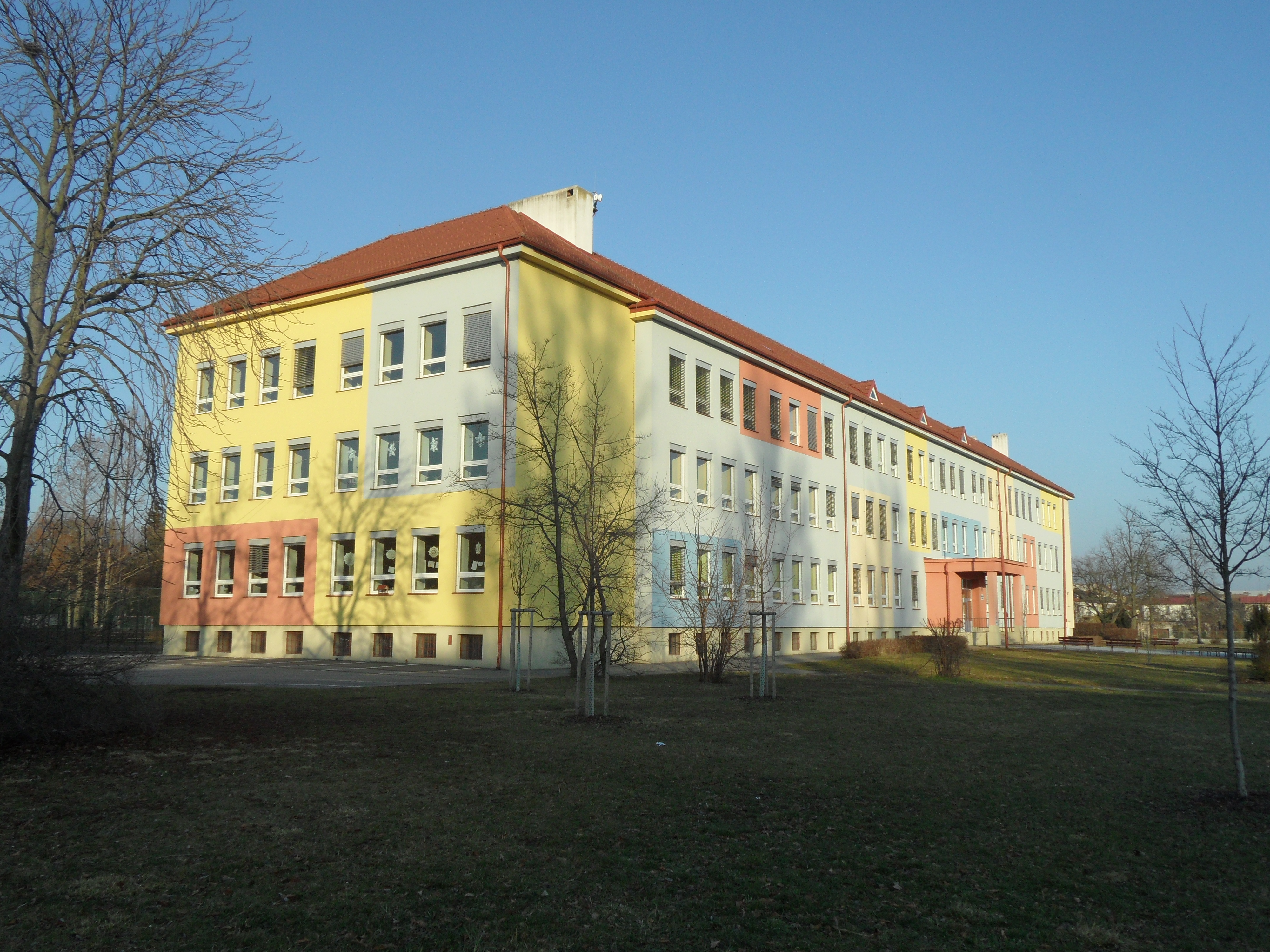 Pardubice, primary school Staňkova, overview from South-West. Pardubice district, the Czech Republic.